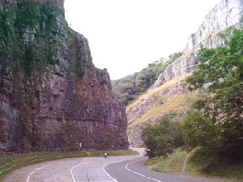 Cheddar Gorge - Looking down Cheddar Gorge, cut through the limestone Mendip Hills.